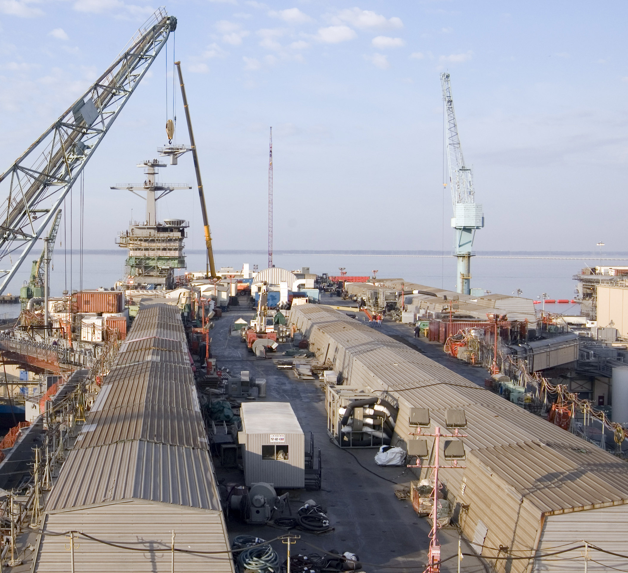 070221-N-9703H-021 Newport News, Va. - A portion of a newly manufactured mast is lifted via crane onto the superstructure of USS Carl Vinson (CVN 70) by employees from Northrop Grumman Newport News shipyard. The installation of the ship’s mast is a major milestone along the road towards re-delivering USS Carl Vinson to the fleet for another 25 years of responding to the nation’s tasking. USS Carl Vinson is currently undergoing its scheduled refueling complex overhaul (RCOH) at Northrop Grumman Newport News shipyard. The RCOH is an extensive yard period that all Nimitz-class aircraft carriers go through near the mid-point of their 50-year life cycle.